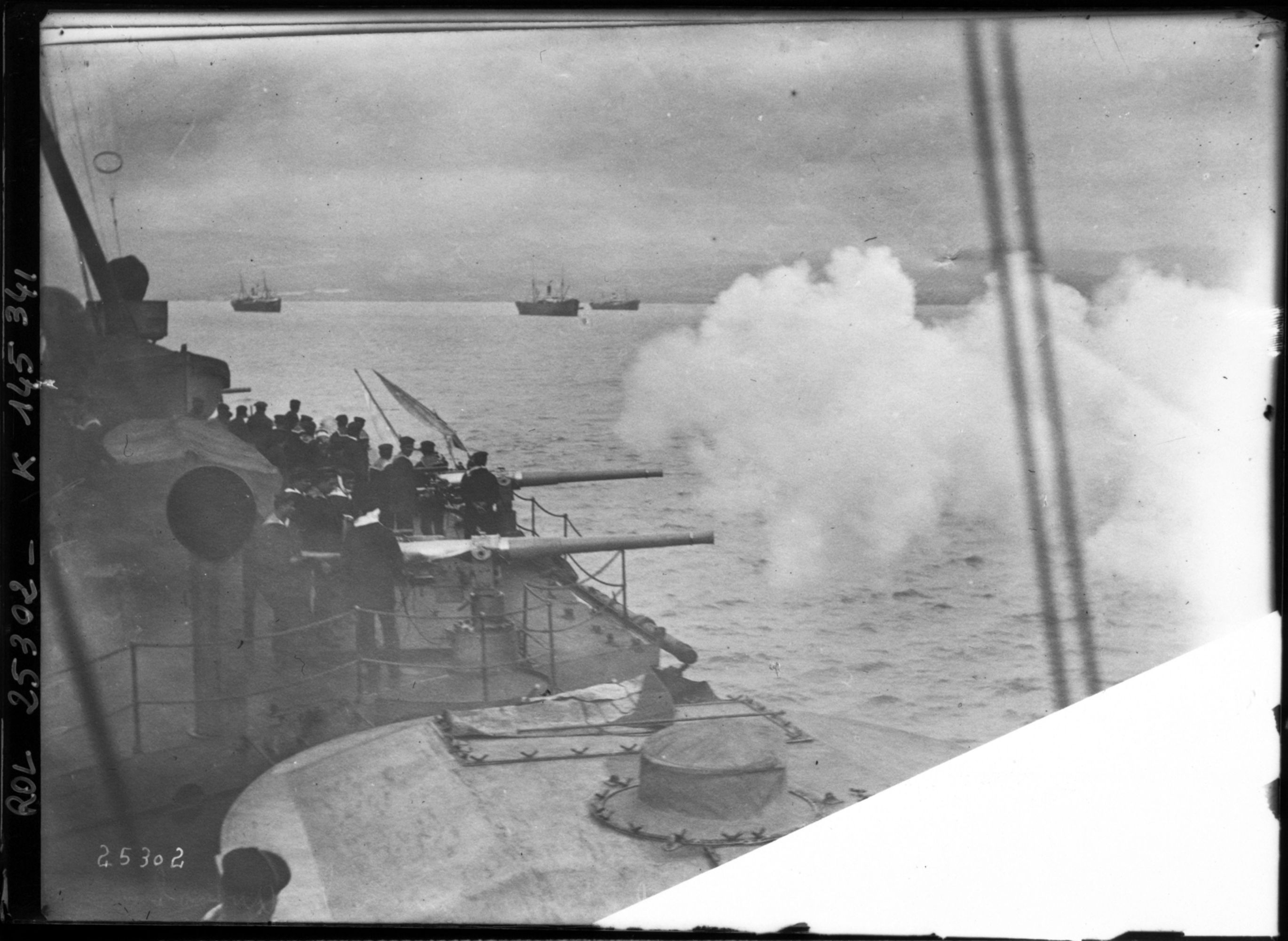 The Greek cruiser Averof shelling the port of Dedeagatch (Alexandroupoli) during the Balkan Wars